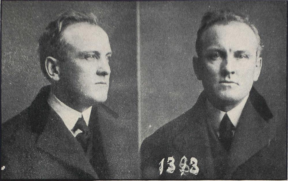 Pat CroweArrest Photo in Butte, MT. Arrested for the Kidnapping of Edward Cudahy, Jr.